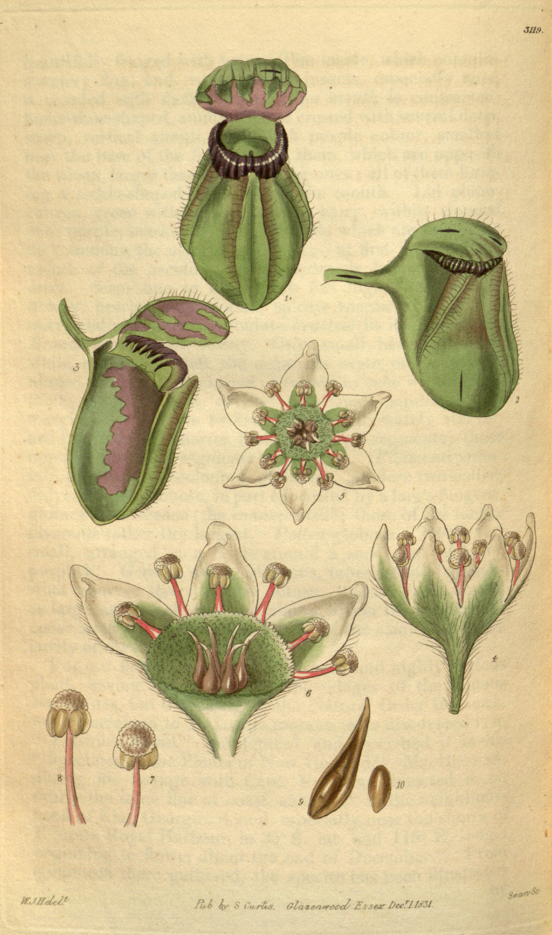 This is a plate from Curtis's Botanical Magazine, Volume 58.